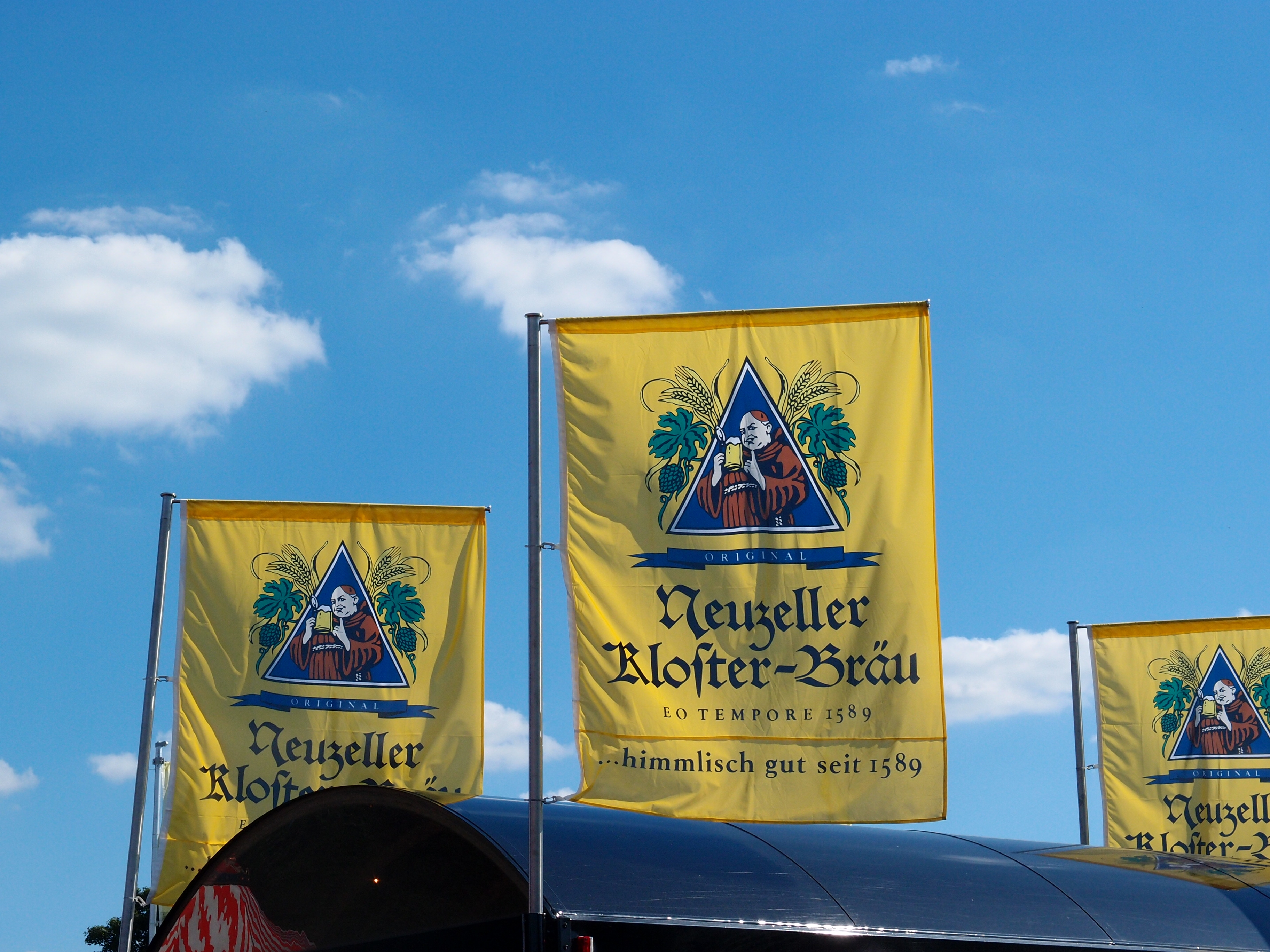 18. Bonner Bierbörse (Juli 2012), (Neuzeller Kloster-Bräu Stand) Datum: 22.07.2012 Urheber: M. Pfeiffer alias Benutzer:Gordito1869 Quelle: privates Fotoarchiv des Urhebers